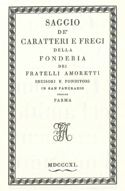 frontispiece of typographic characters and signs catalogue of "Fratelli Amoretti" foundry, 1811